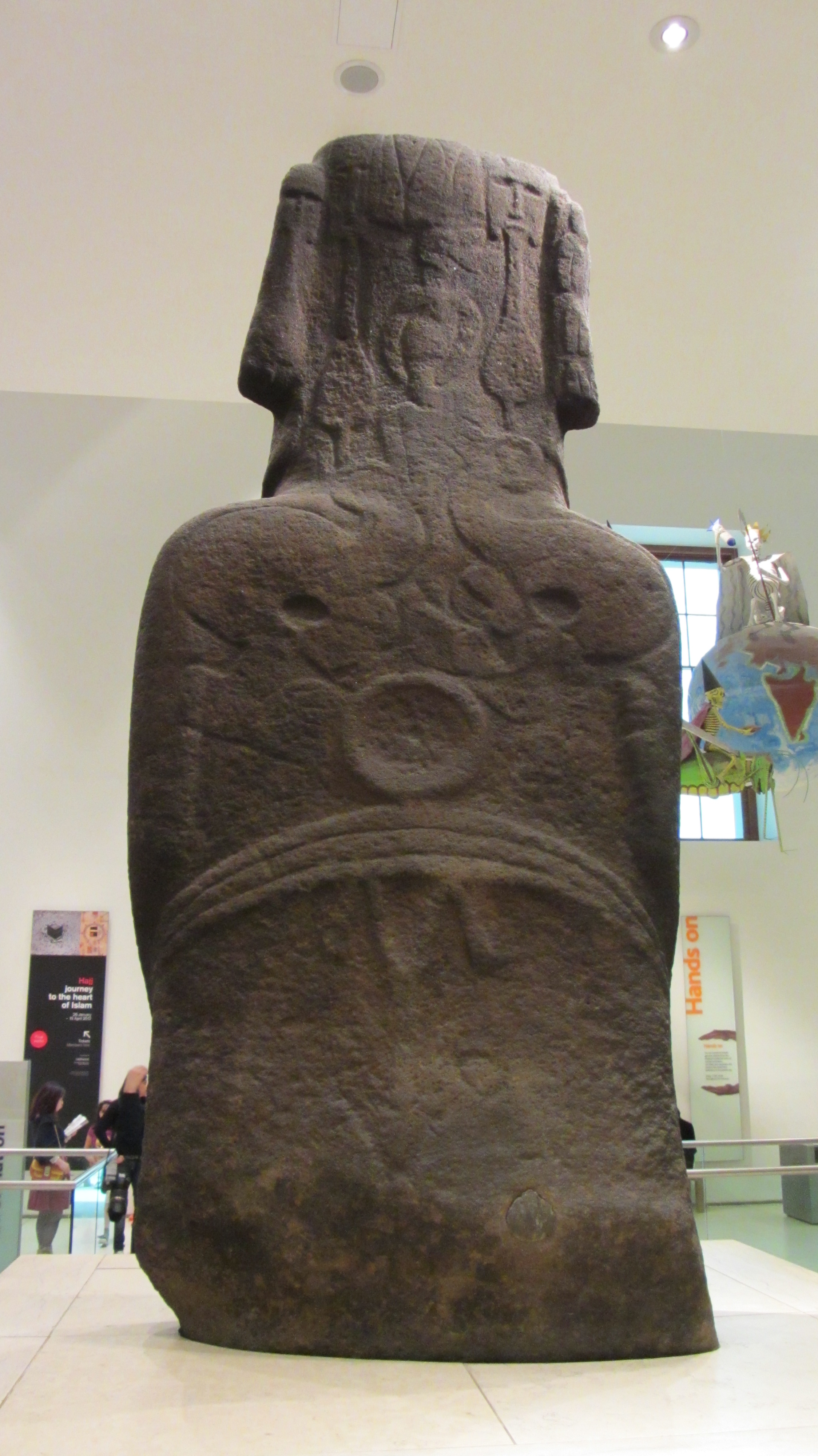 Rear view of moai statue made of basalt, called Hoa Hakananai'a ("Stolen or Hidden Friend"), from Orongo, Easter Island (Rapa Nui), Polynesia, around AD 1000. British Museum (Oc1869,1005.1). Carvings on back are believed to post-date the original sculpture.